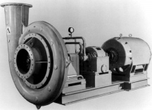 A single stage centrifugal compressor (left) driven by an electric motor (right) through a gearbox (center). A low-speed coupling connects the motor to the gearbox, and a high-speed coupling connects the gearbox to the compressor. Process gas enters the compressor through the flanged opening at left center and is discharged through the flange in the upper left corner of the photograph. The impeller can be seen just inside the inlet port.